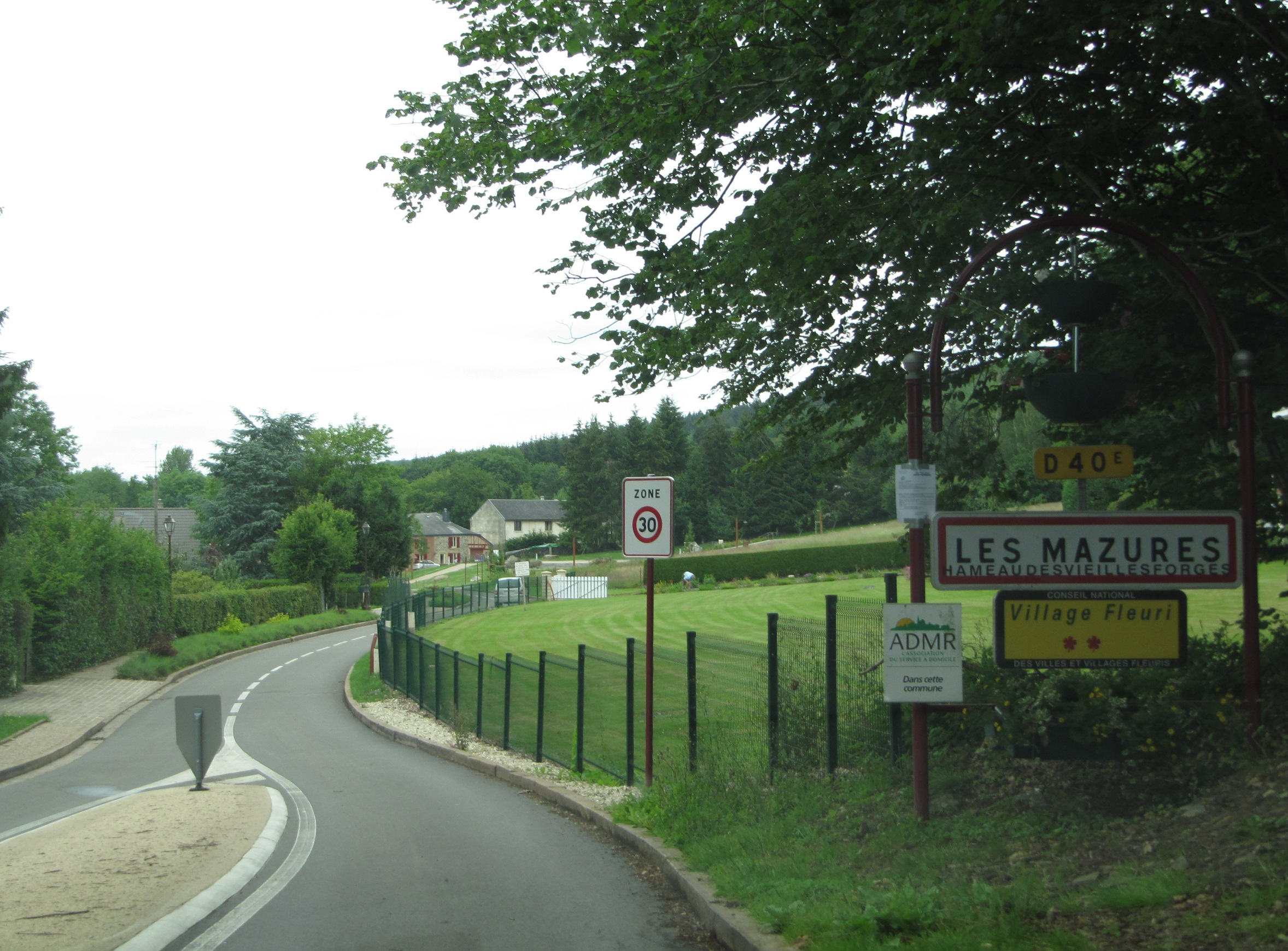 Les Vieilles Forges